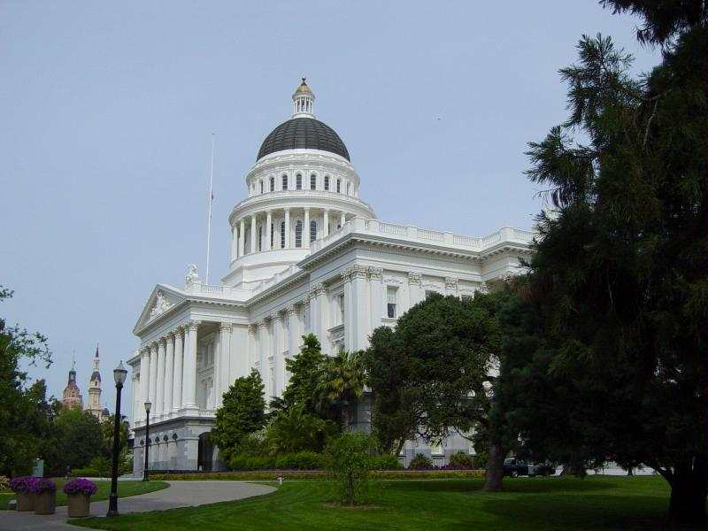 Photo taken on April 10, 2003. Image taken by Daniel Mayer and may be reused under terms of the GNU FDL.